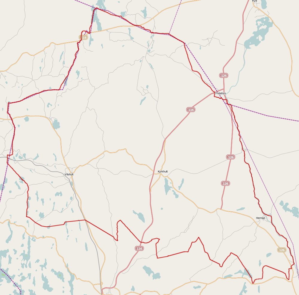 old Kyrkhult municipality